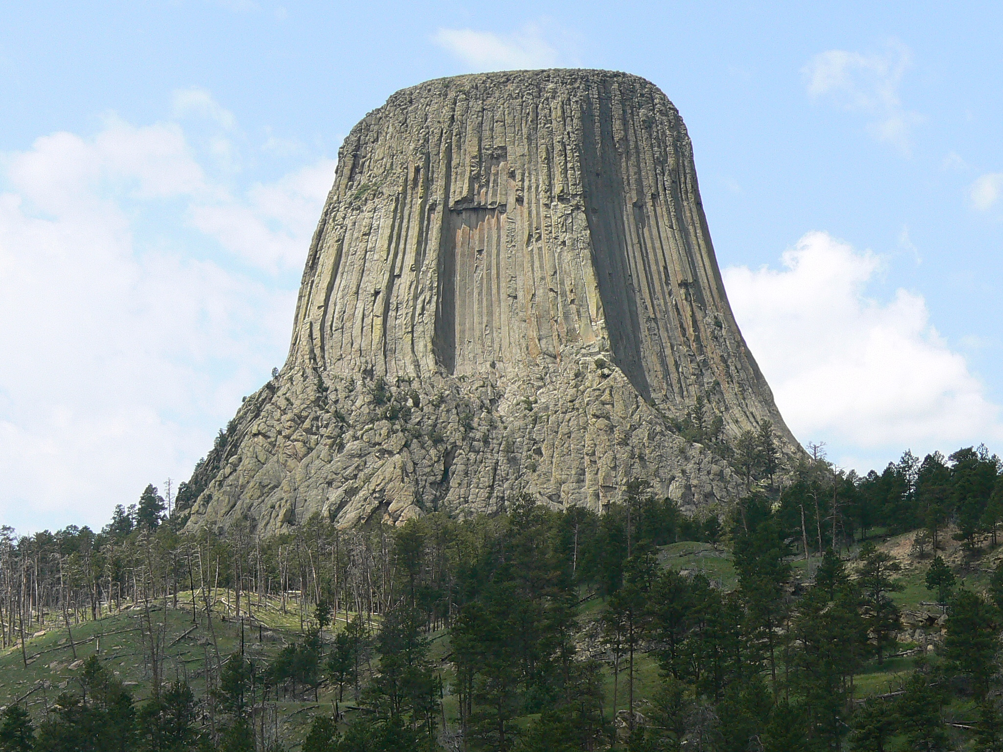 Devil's Tower Wyoming as in close encounters of the third kind